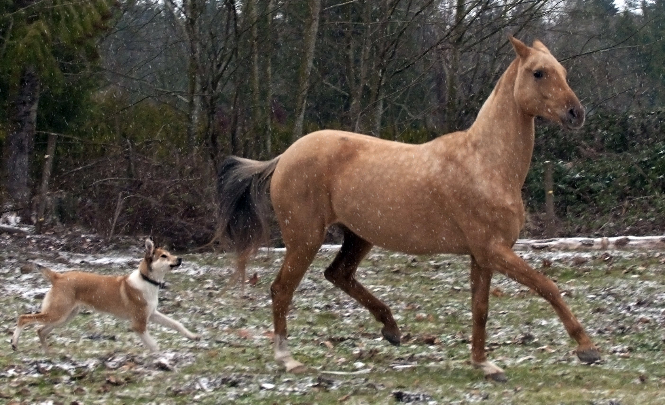 playing outside during our first snowfall!